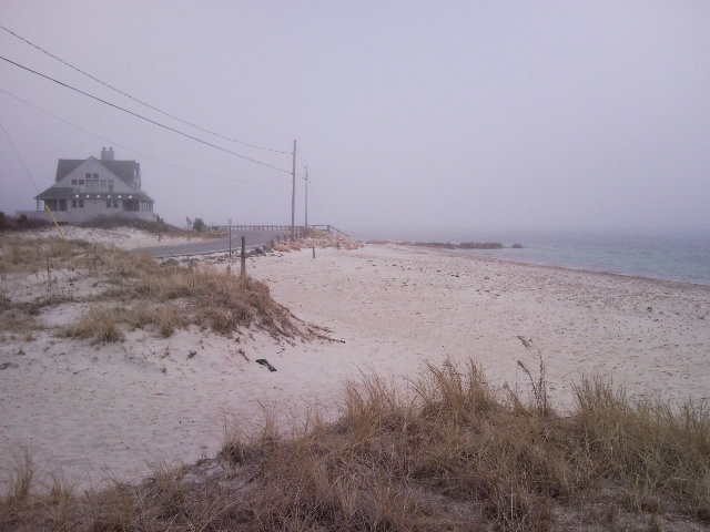 A beach on the coast of Massachusetts on a foggy early spring day. Taken with camera phone while running.